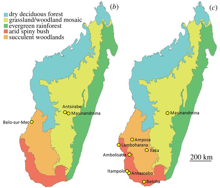 Distribution across Madagascar of identified specimens of (b) Aepyornis hildebrandti and (c) Aepyornis maximus.